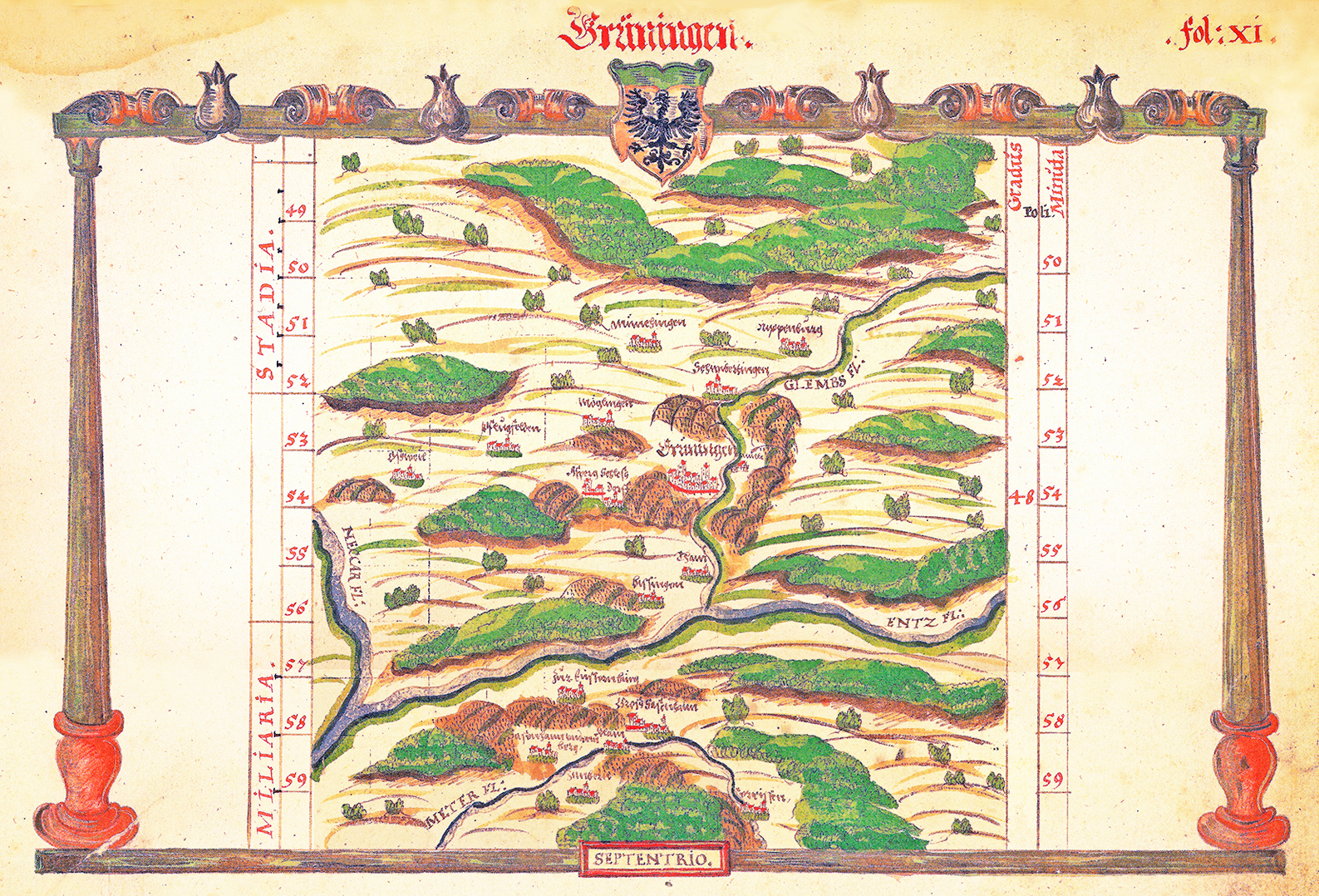 District map of „Amt Grüningen“ (today Markgröningen) with „Amtsflecken“ (villages) Pflugfelden, Münchingen, Schwiebertingen, Nippenburg, Oßweil, Pflugfelden, Möglingen, Schloß und Dorf Asperg (Hohen- und Unterasperg), Thamm, Bissingen, Saßenheim underm Berg (Untermberg), Zur Eyssern Burg (Egartenhof), Großsaßenheim, Kleinsaßenheim, Zimbern (Metterzimmern) and Sarissen (Sersheim). fol. XI of Atlas des Herzogtums Württemberg